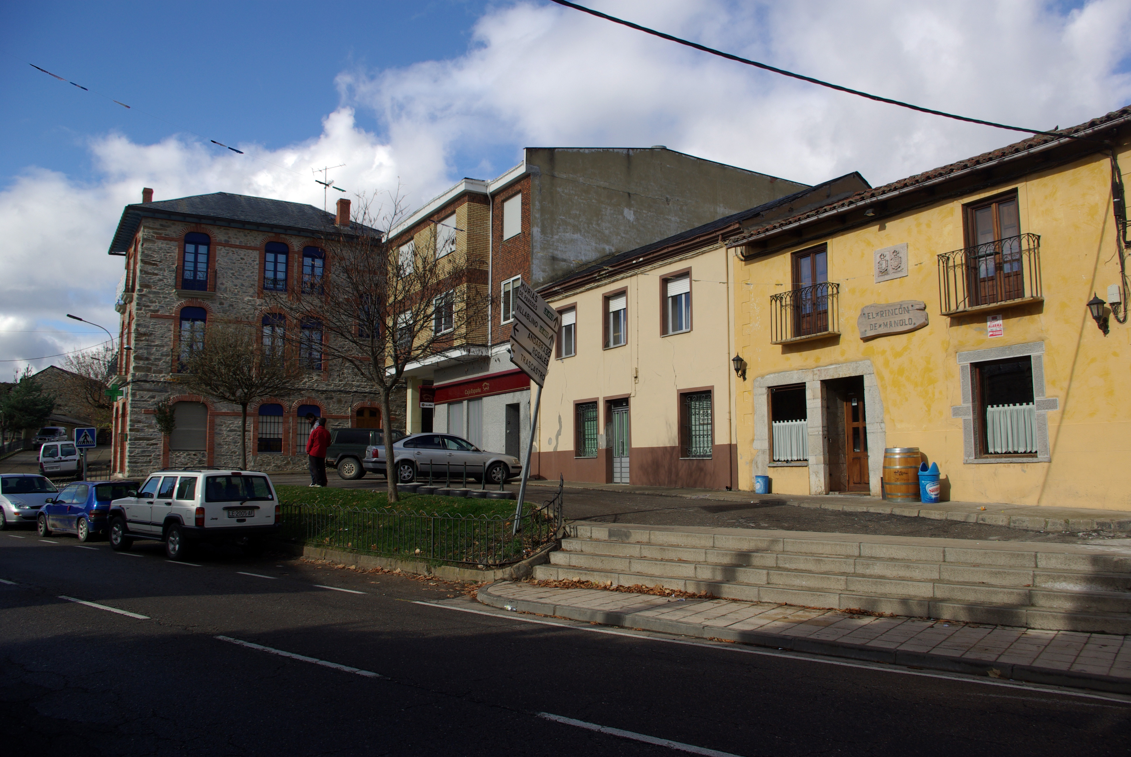 Riello (León, Spain).